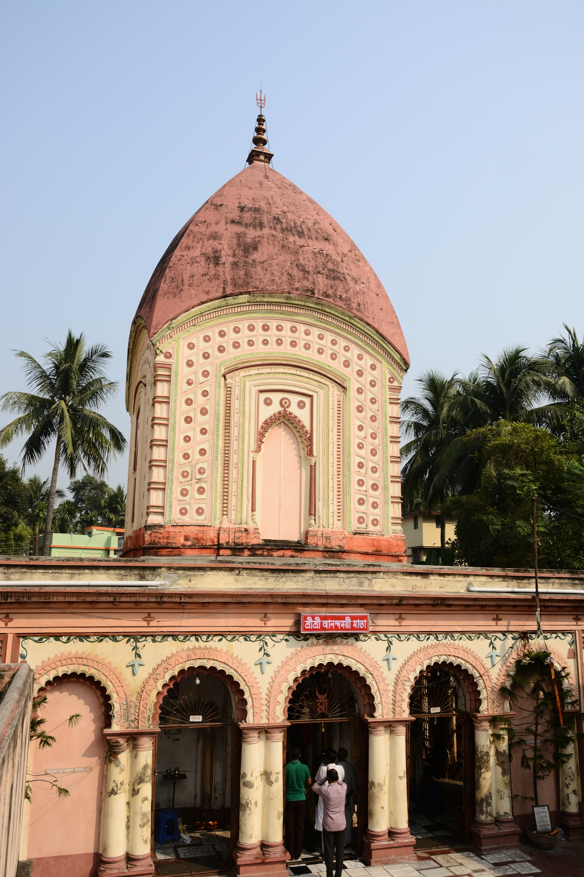 Anandamoyee Kali Temple was built in 1804 by Maharaja Girish Chandra, the great grandson of Maharaja Krishnachandra. This temple is situated close to Krishnanagar Rajbari. This temple is flat roofed with upper storied 'char chala' or four roofed architecture. Here the principal deity is Anandamoyee Kali.